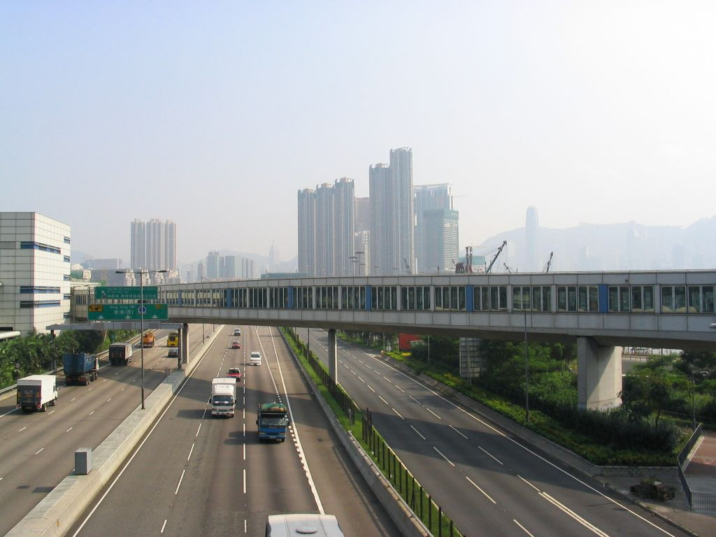 西九龍公路(近奧運站) West Kowloon Expressway (near Olympic Station)